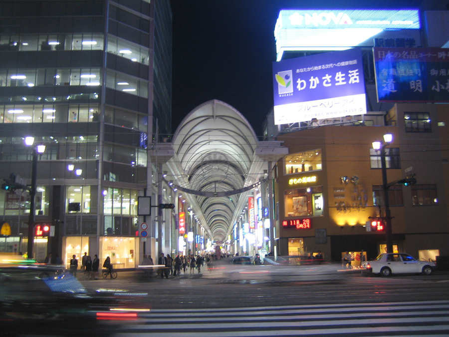 Hondori Street in Hiroshima at night (personal picture taken November 2, 2006)